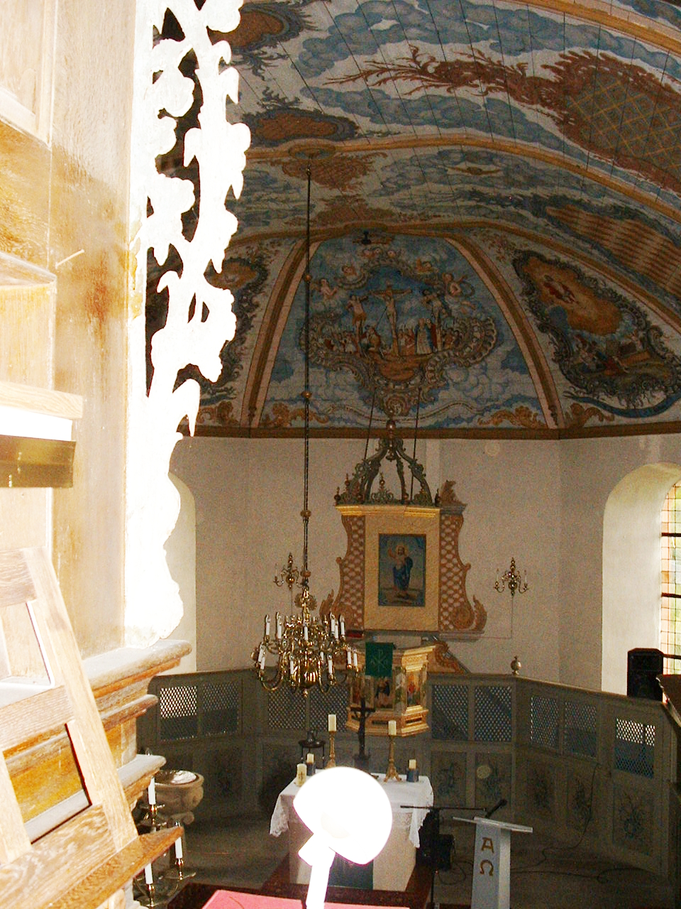 Evangelische Kirche Schauren, Altar